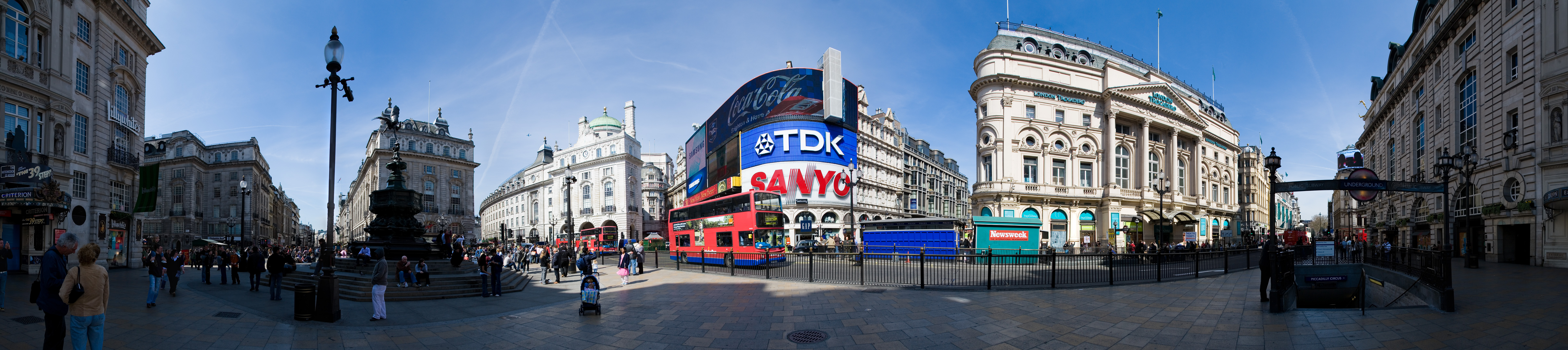 A 7 segment vertically stitched panorama of Piccadilly Circus in London, England. Taken by myself with a Canon 5D and 24-105mm f/4L lens.